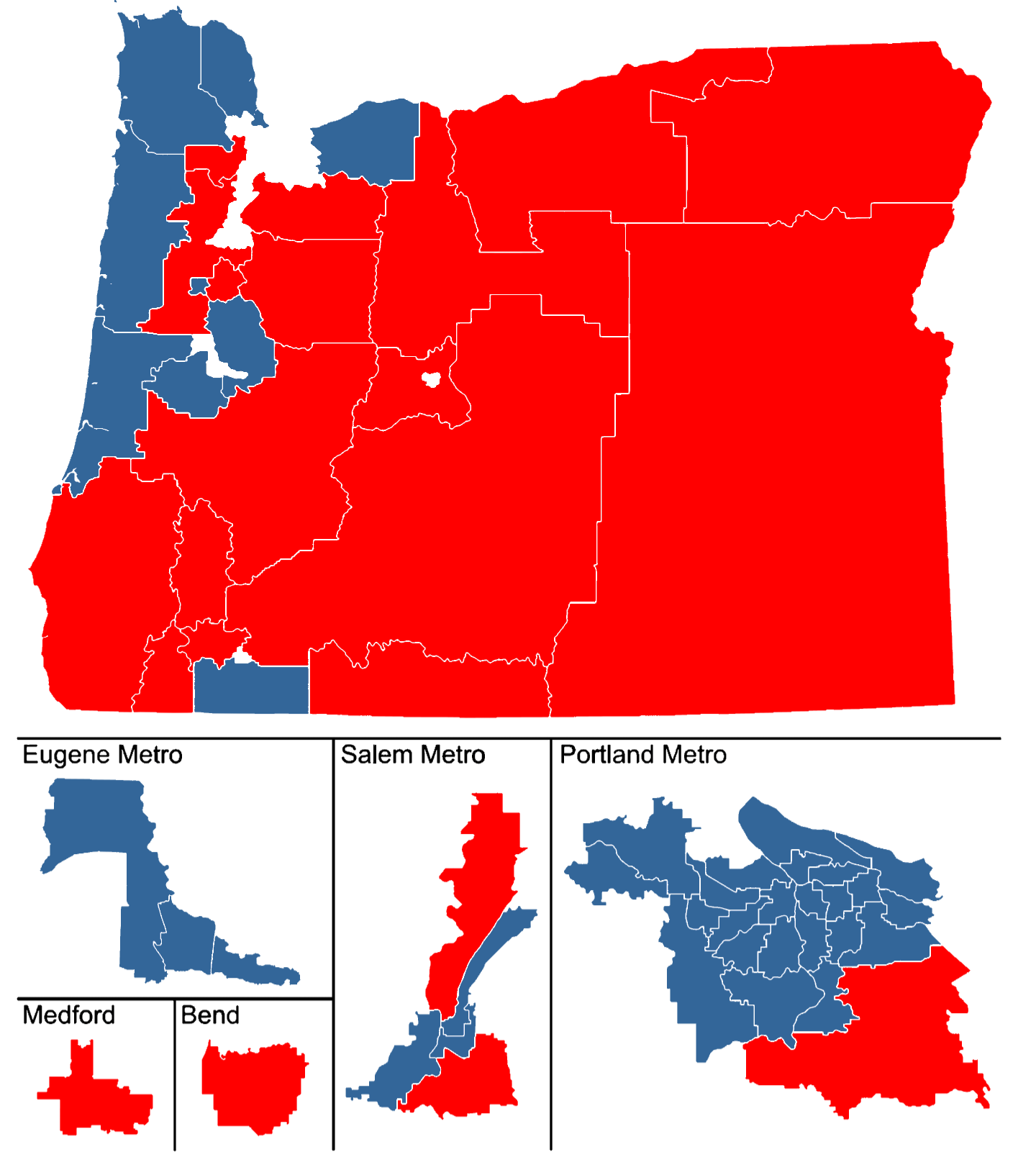 Map showing the party affiliation of members in the Oregon House of Representatives